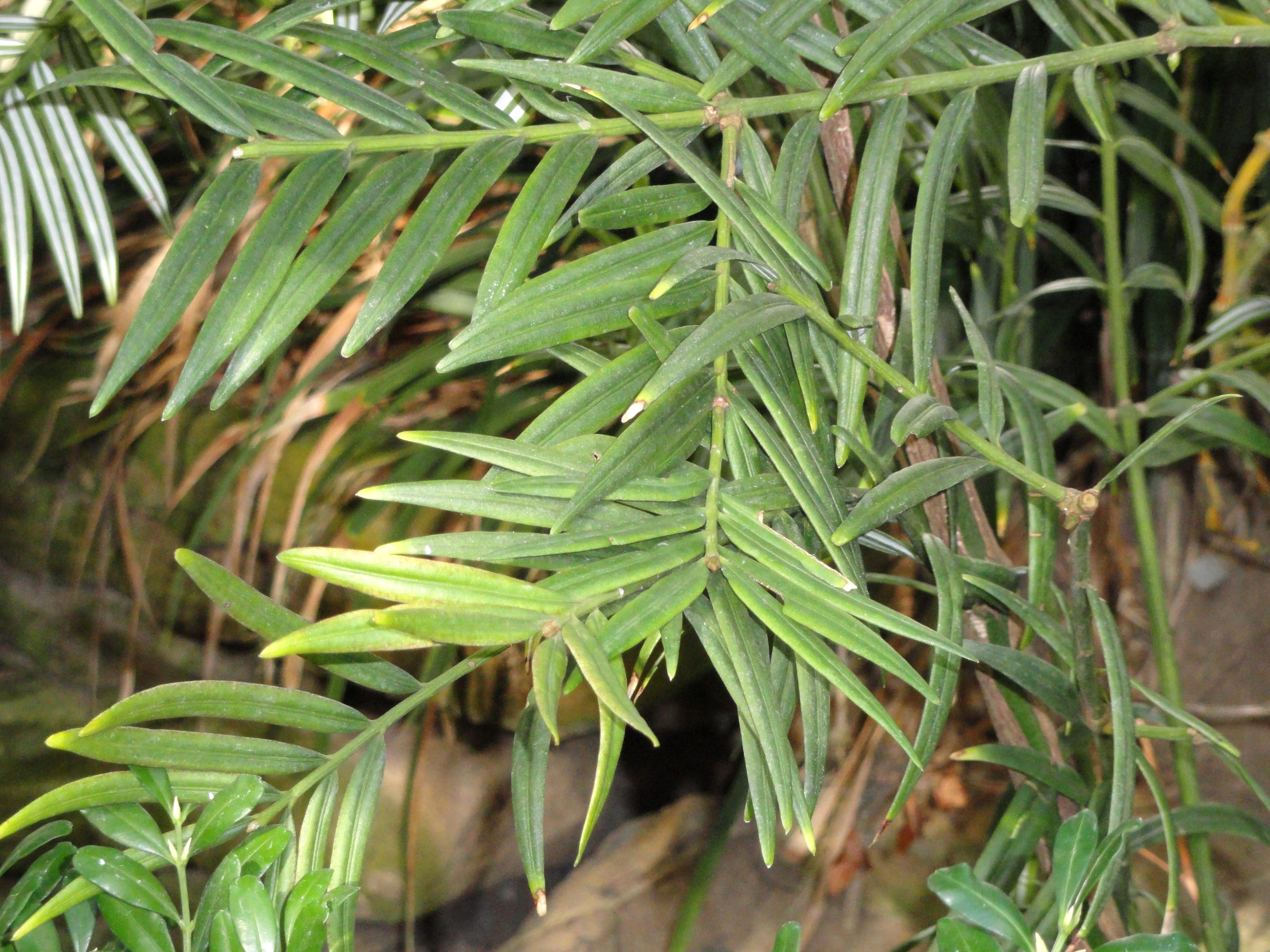 Botanical specimen in the Lyman Plant House, Smith College, Northampton, Massachusetts, USA.